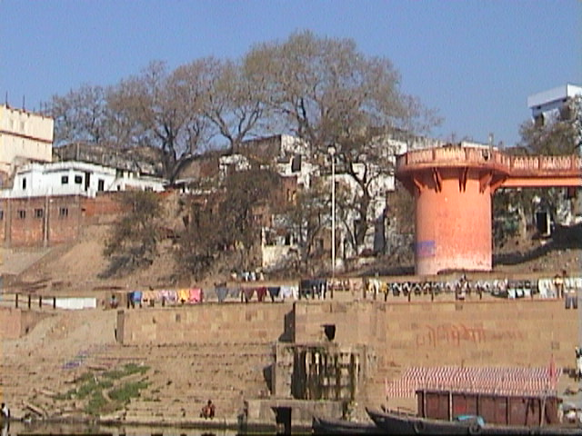 See Varanasi Development Cooperation Handbook/Stories/Responsible Development - Varanasi The Varanasi Heritage Dossier Kautilya Society Mediendatei abspielen Vrinda Dar - How we got involved in heritage protection of Varanasi